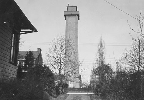 Marcus Hook Rear Range Light on the Delaware River Channel near Bellefonte, Delaware